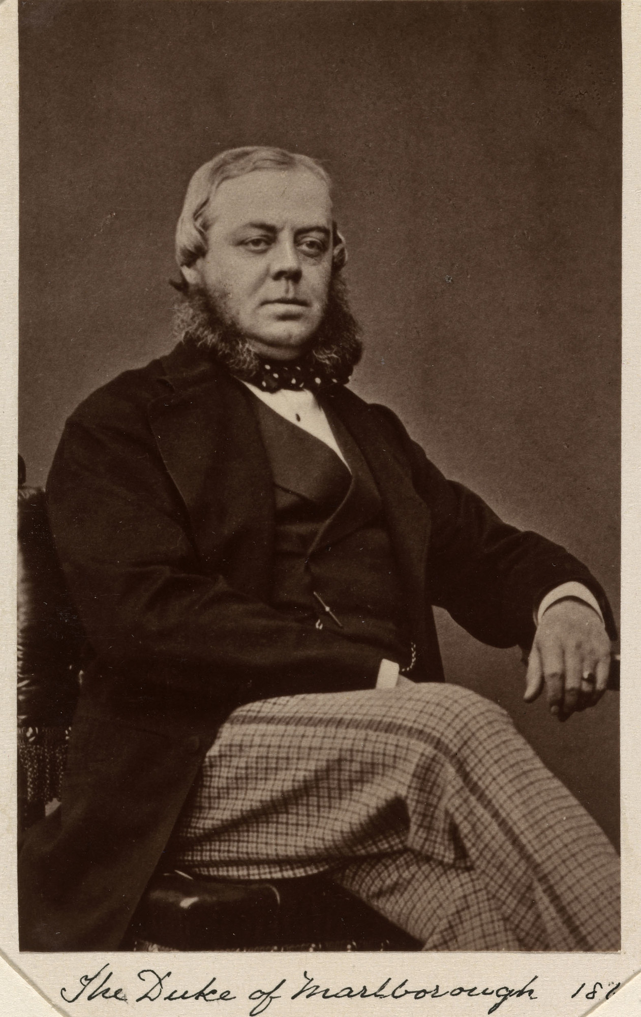 Portrait of John Winston Spencer-Churchill 7th duke of Marlborough